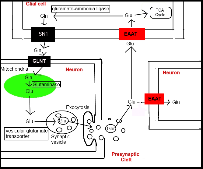 Function of glutamate as a neurotransmitter between neurons. This figure highlight the use of excitatory amino acid transporters (EAAT) in this pathway.